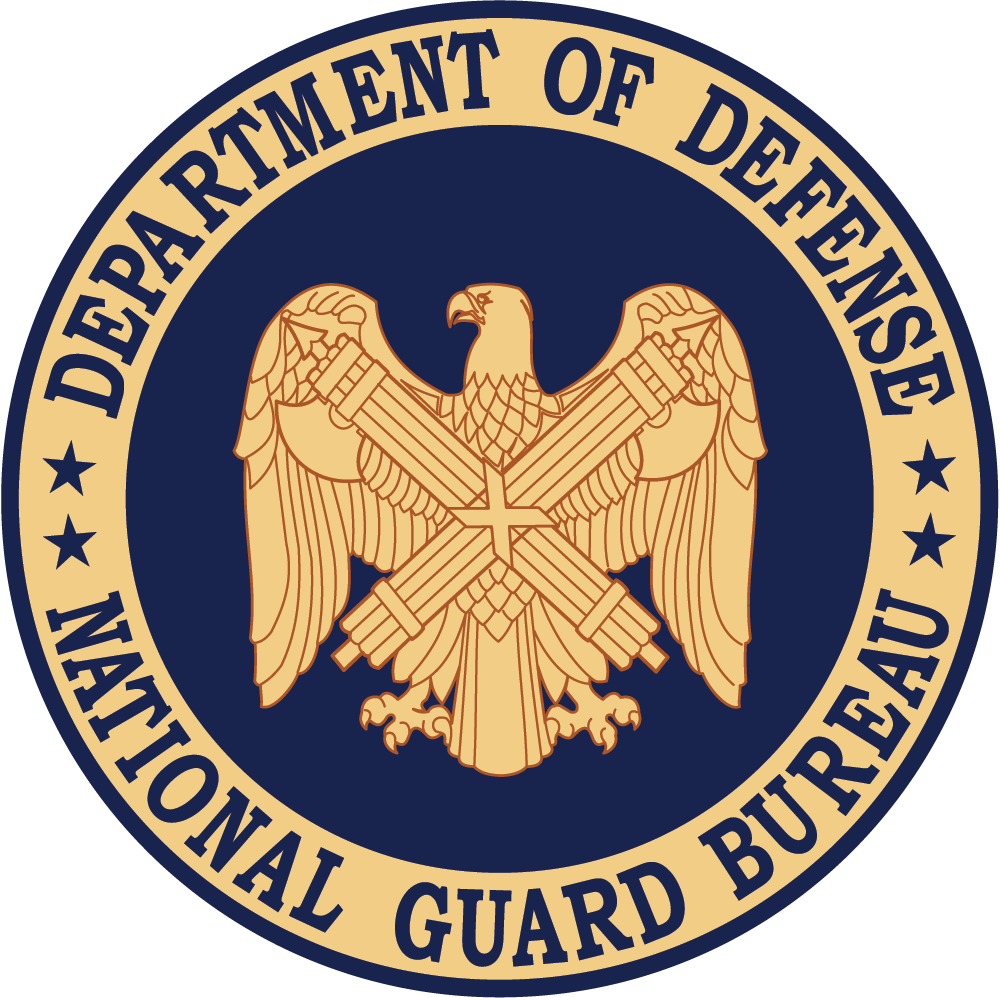 The Official seal of the National Guard Bureau